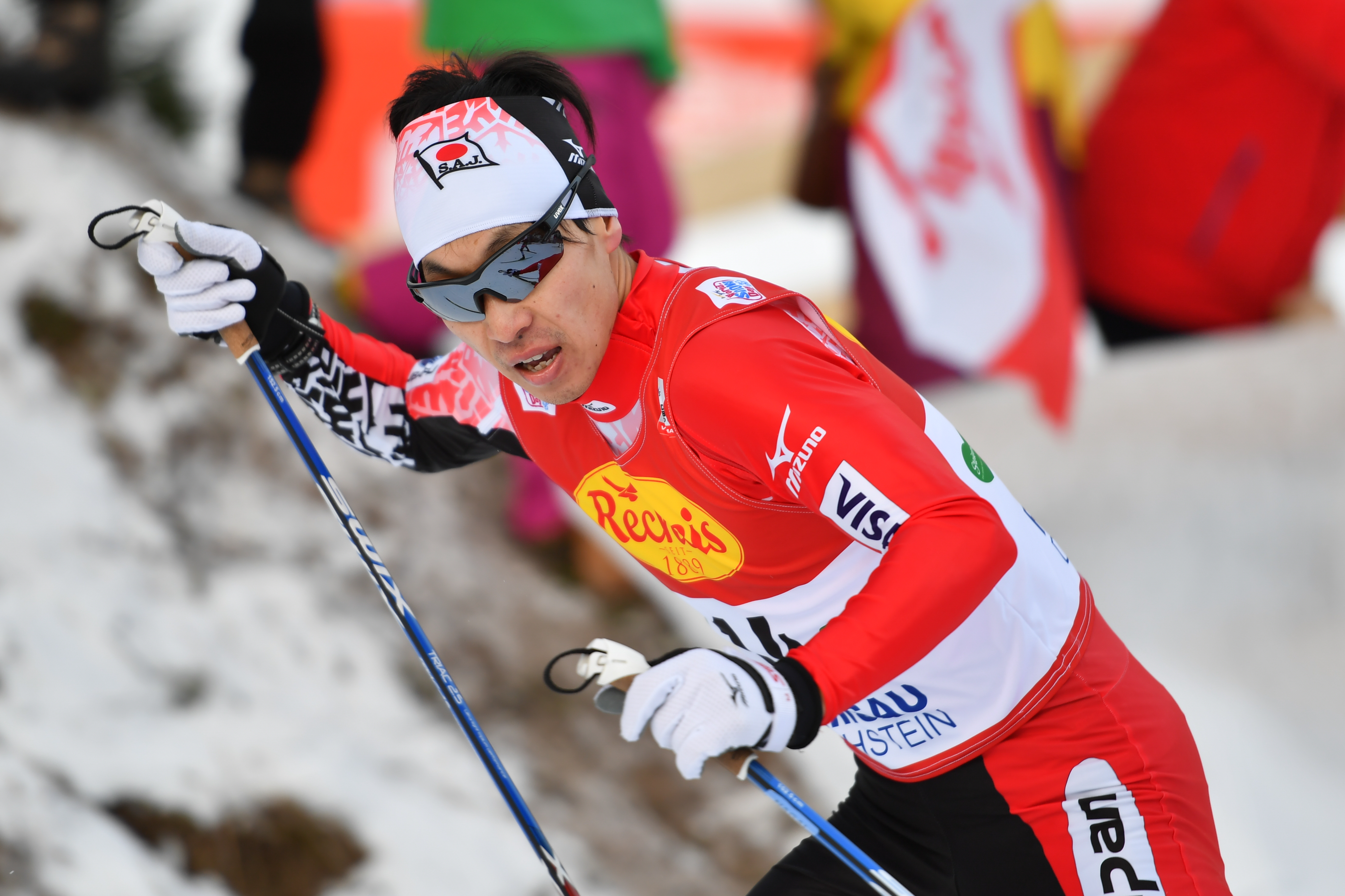 FIS World Cup Nordic Combined, Ramsau/Austria, 2016-12-16 to 2016-12-18.